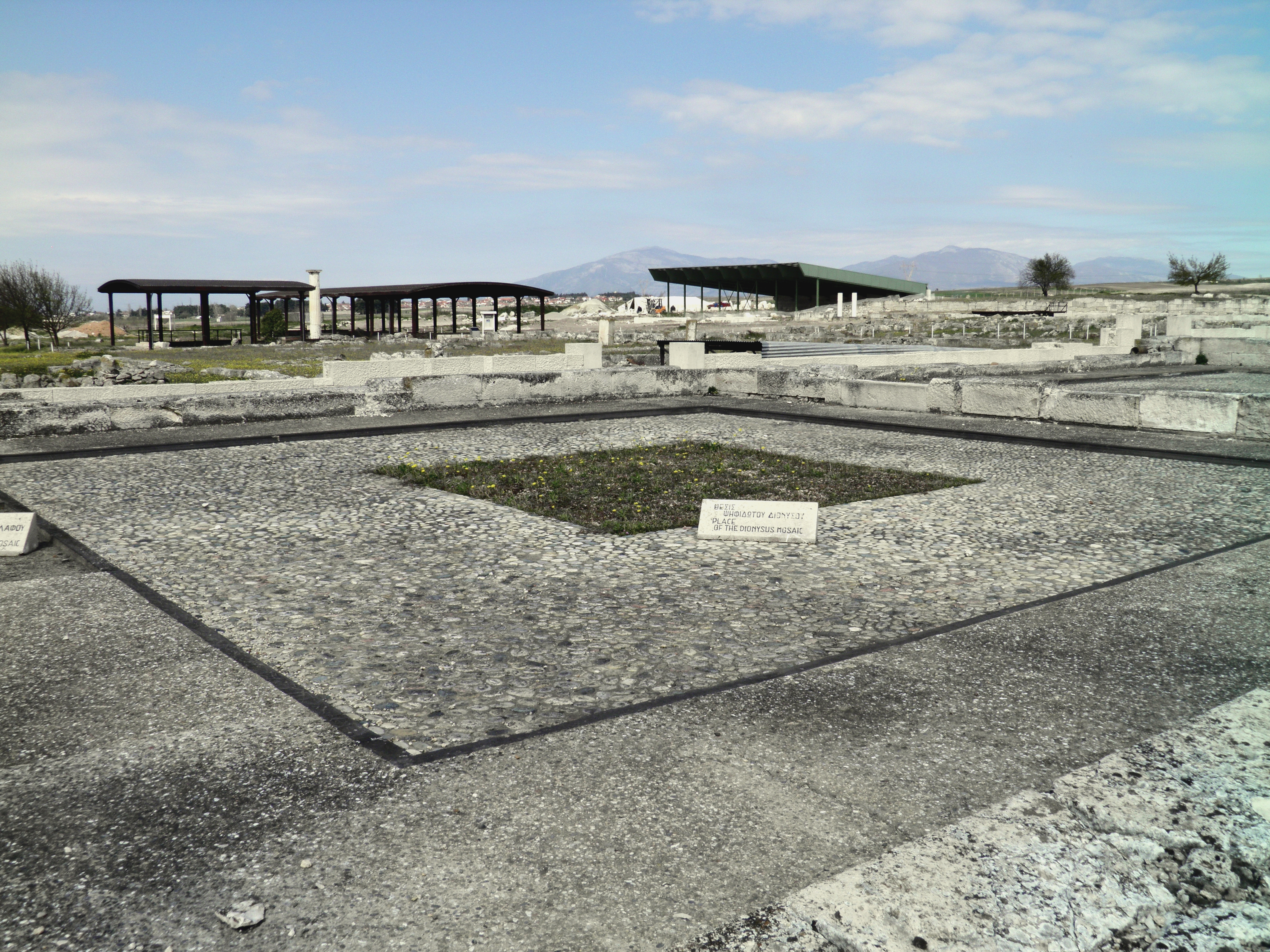 Place of the Dionysos Mosaic in the House of Dionysos, built in 325-300 BC, Ancient Pella